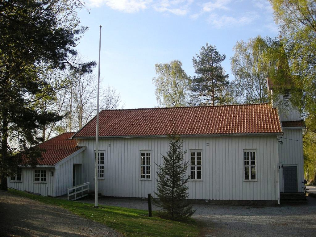 Larkollen church, Rygge municipality, Norway